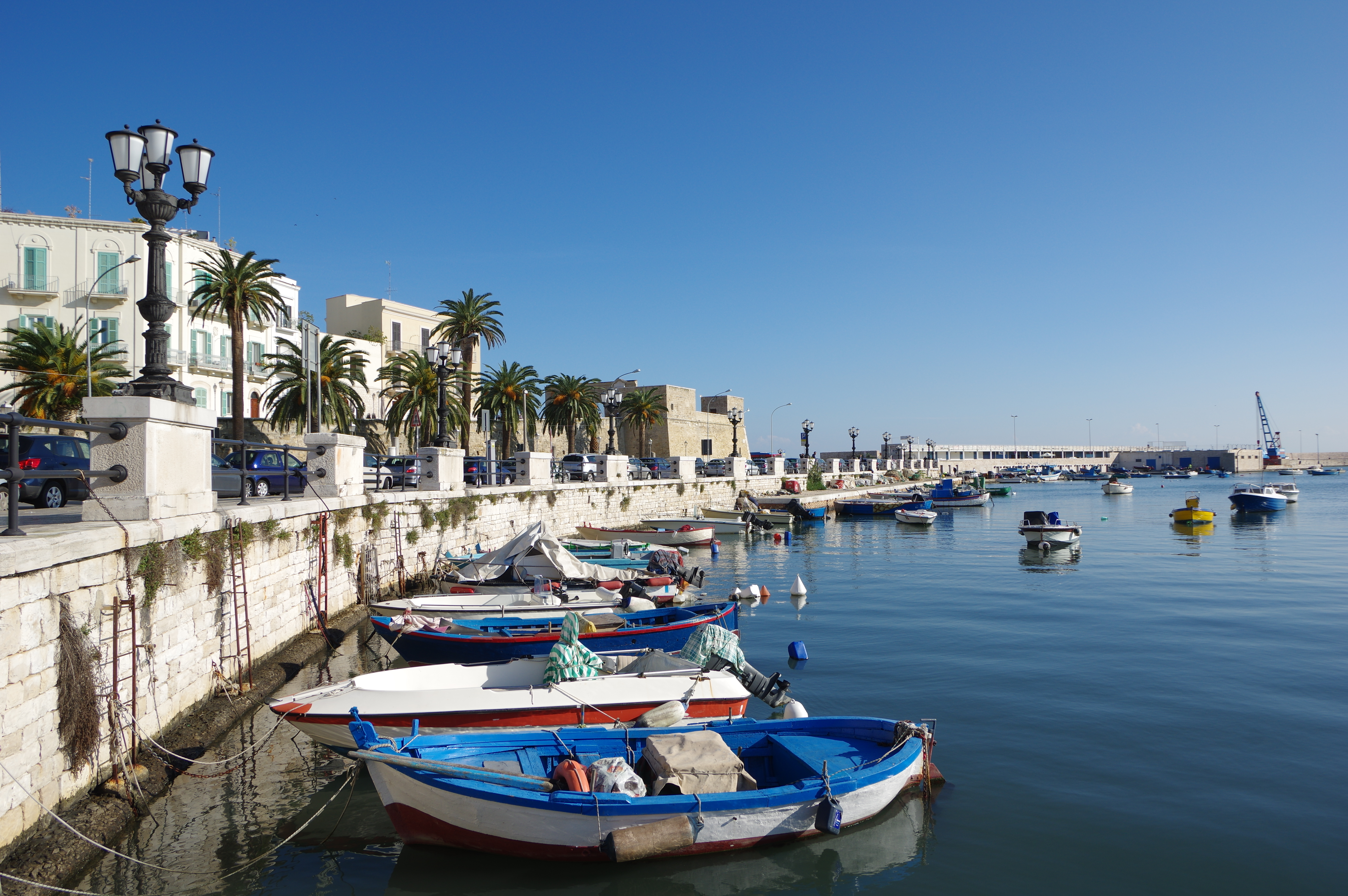 Italy, Bari, harbour